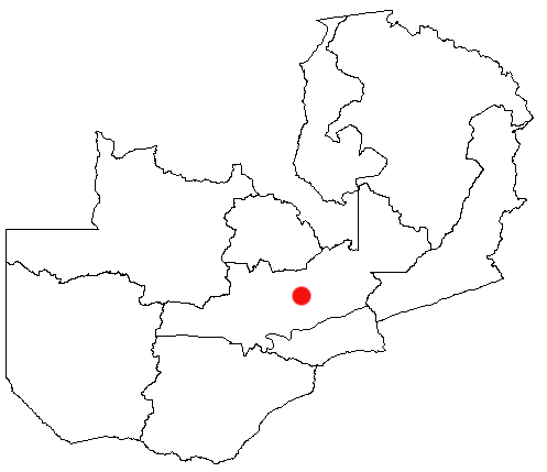 Kabwe, Zambia Location Map; created with the GIMP.